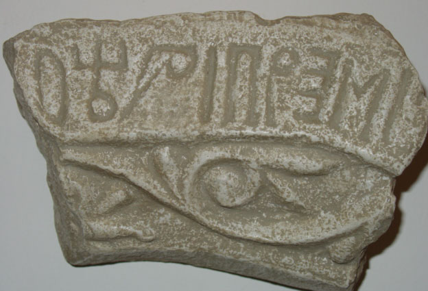 Fragment from Kapitul beside Knin, Croatia dating from 11th-12th century